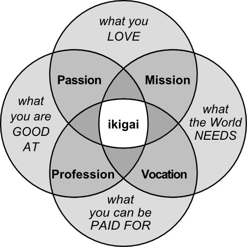 Finding the purpose of your life. The Japanese call it IKIGAI and this is how you derive it. graphic representation by @emmyzen (Emmy van Deurzen) The original graph is from Andrés Zuzunaga and was published in the spanish book "Qué harías si no tuvieras miedo" in 2012 and translated to many languages after that. this is an optimized PNG rendition of File:Ikigai-EN.svg for readability, SVG thumbnails generated are distorted